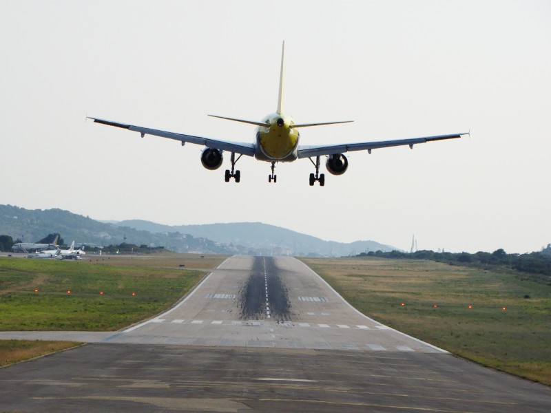 GermanWings Airbus A320 landing ond runway 23 at Split Airport